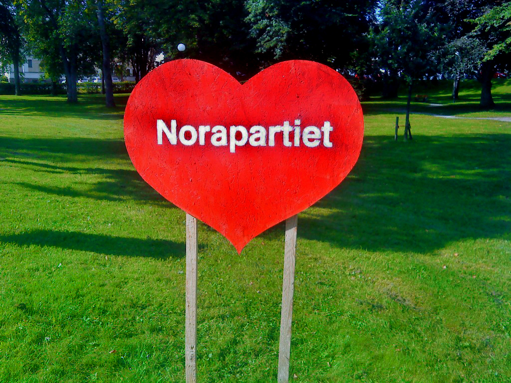 The election sigh of The Nora Party